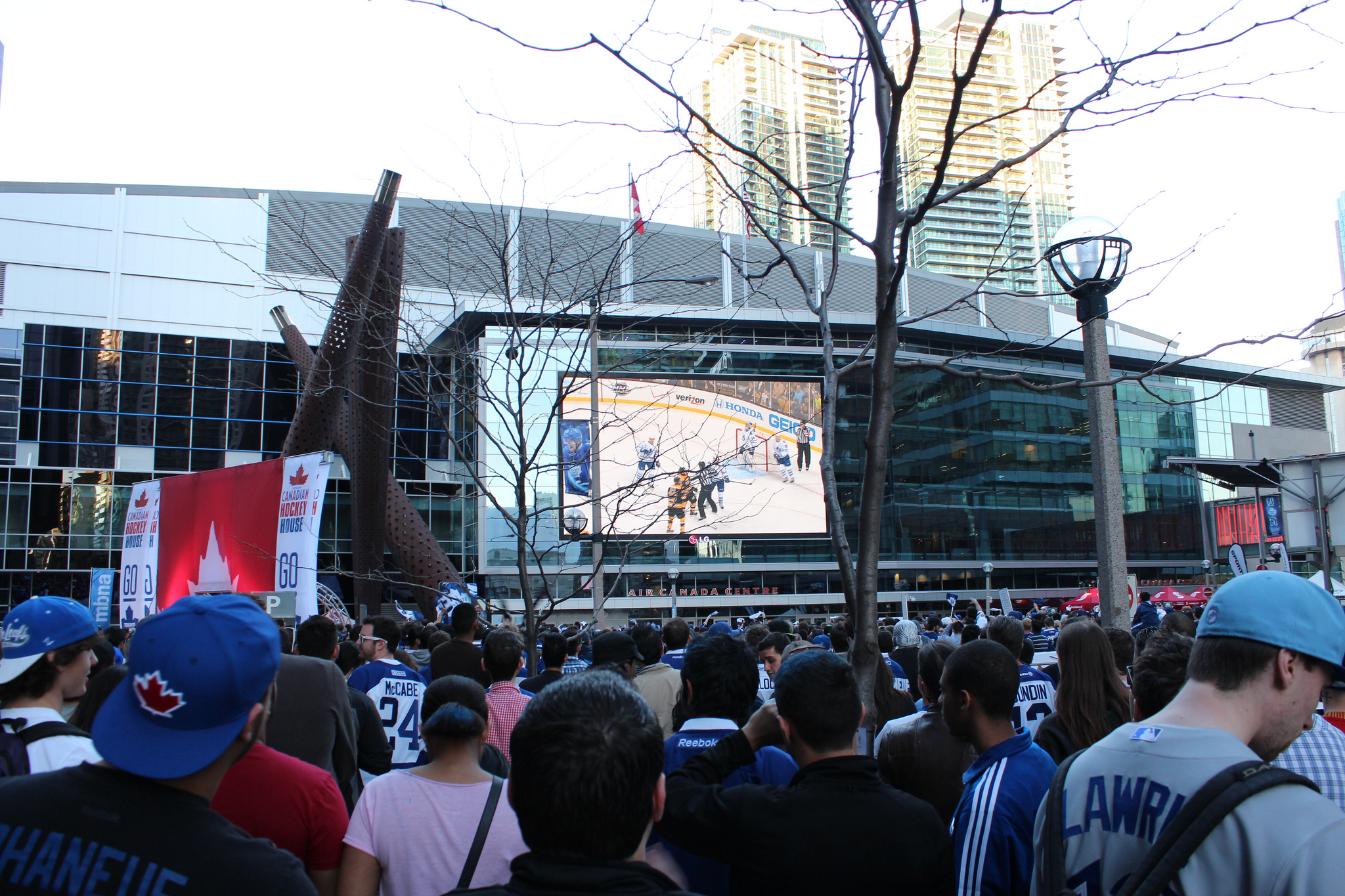 Taken during Game 2 between the Toronto Maple Leafs and the Boston Bruins. NHL Eastern Conference Quarterfinals, 2013. Maple Leaf Square, Toronto, Ontario, Canada.